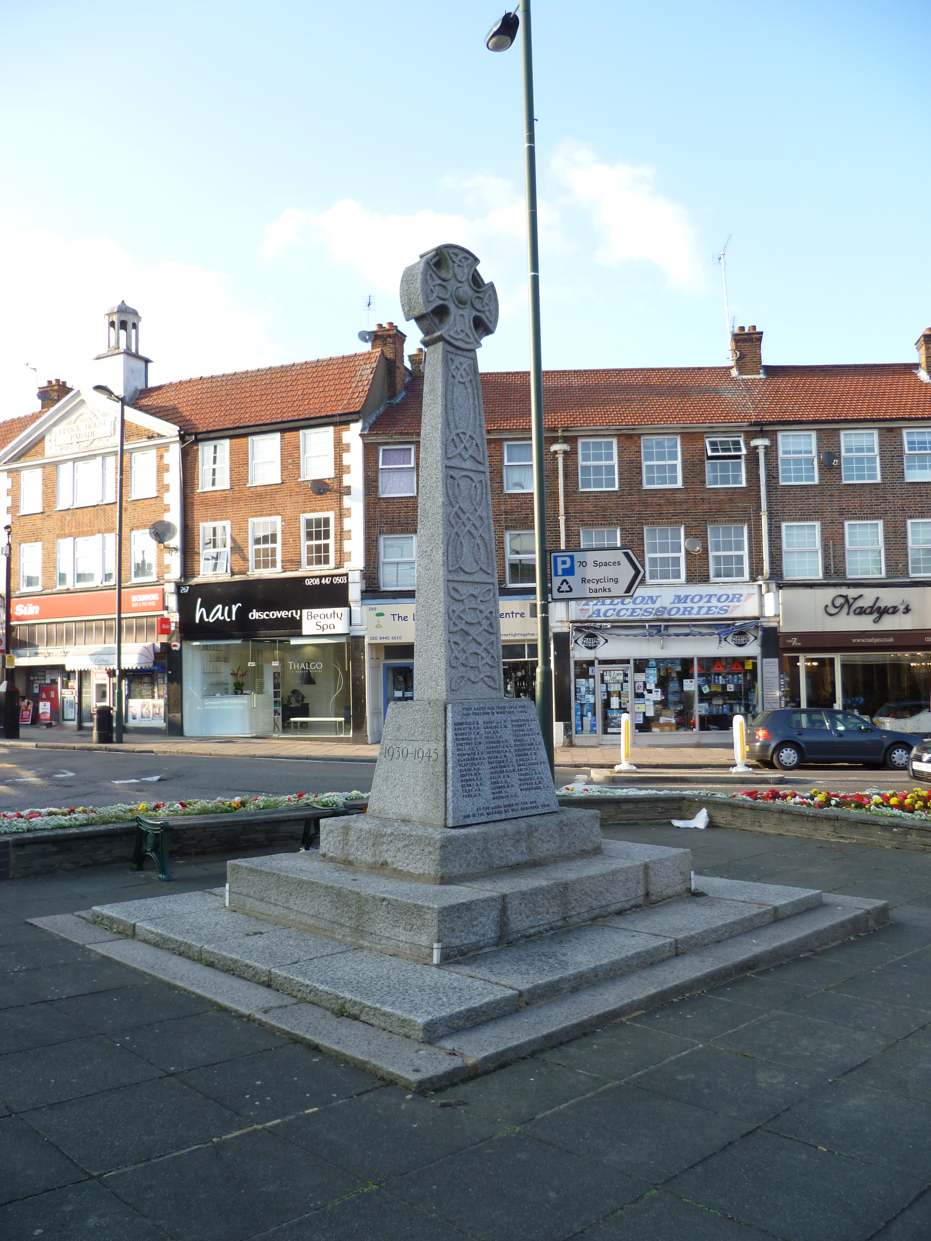 East Barnet war memorial